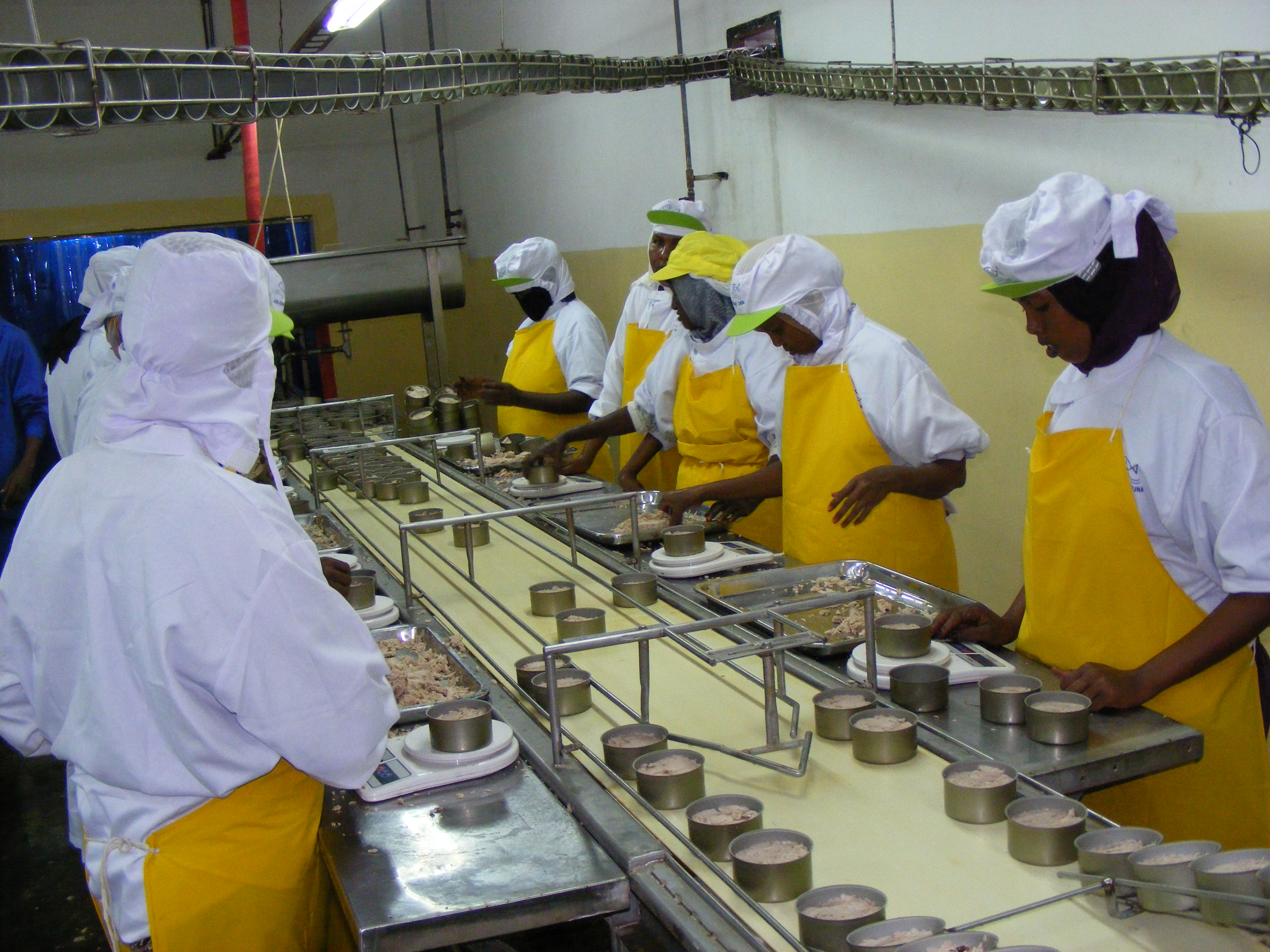 Tuna processing in Laasqoray, Somalia